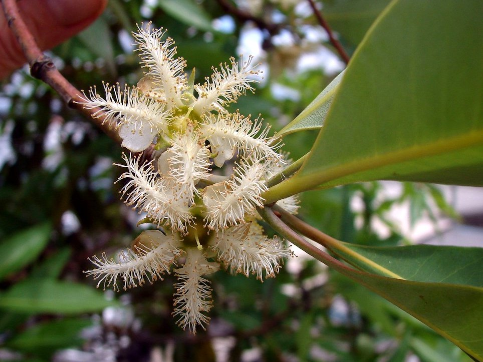 Brush_Box_tree_flowers